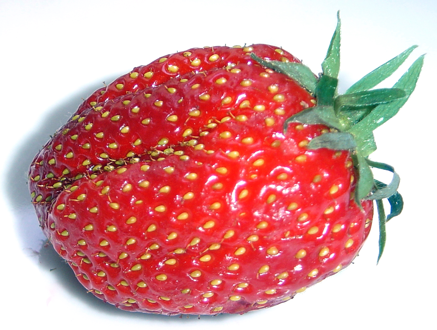 Strawberry, gariguette variety